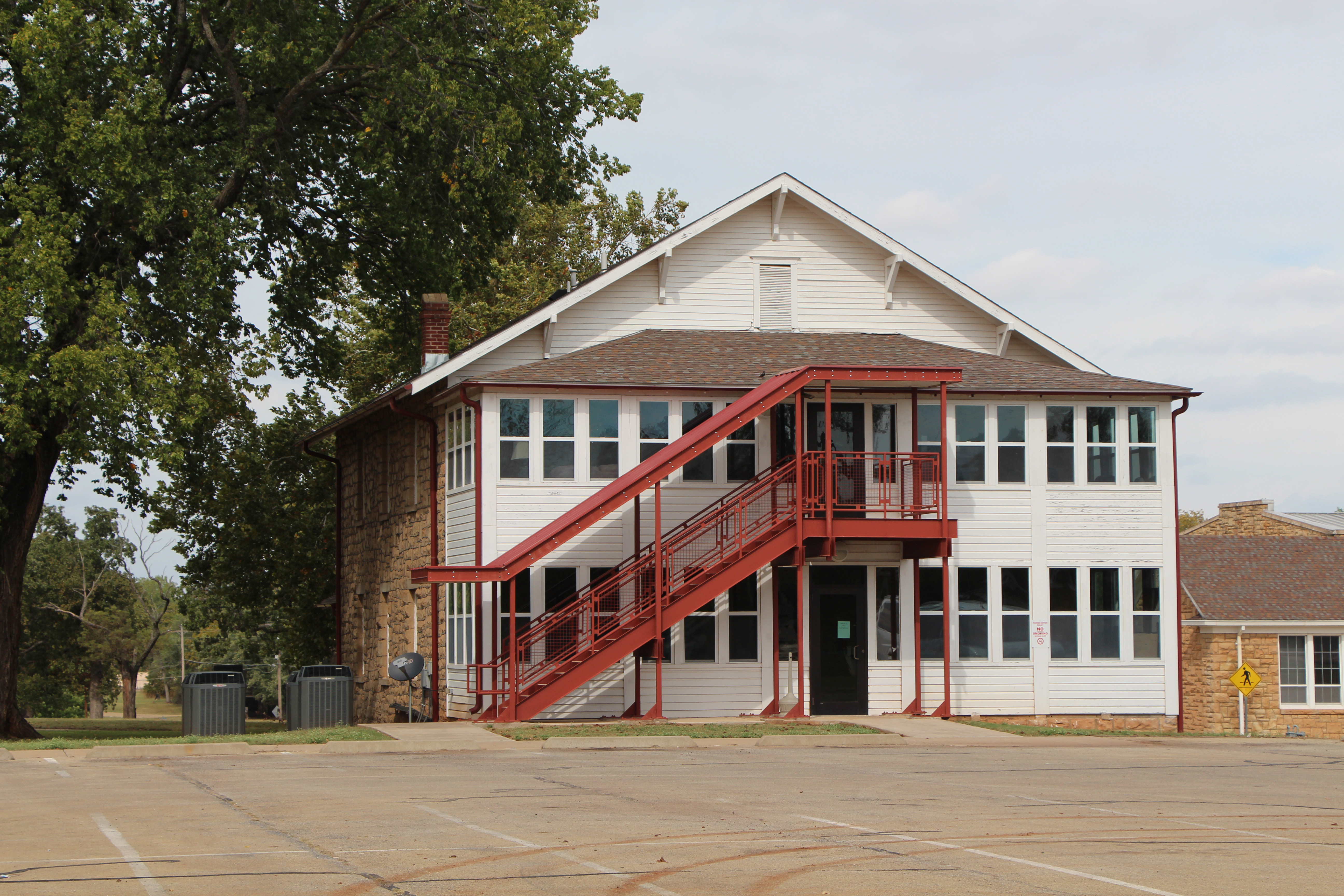 Women's Dorm, south side